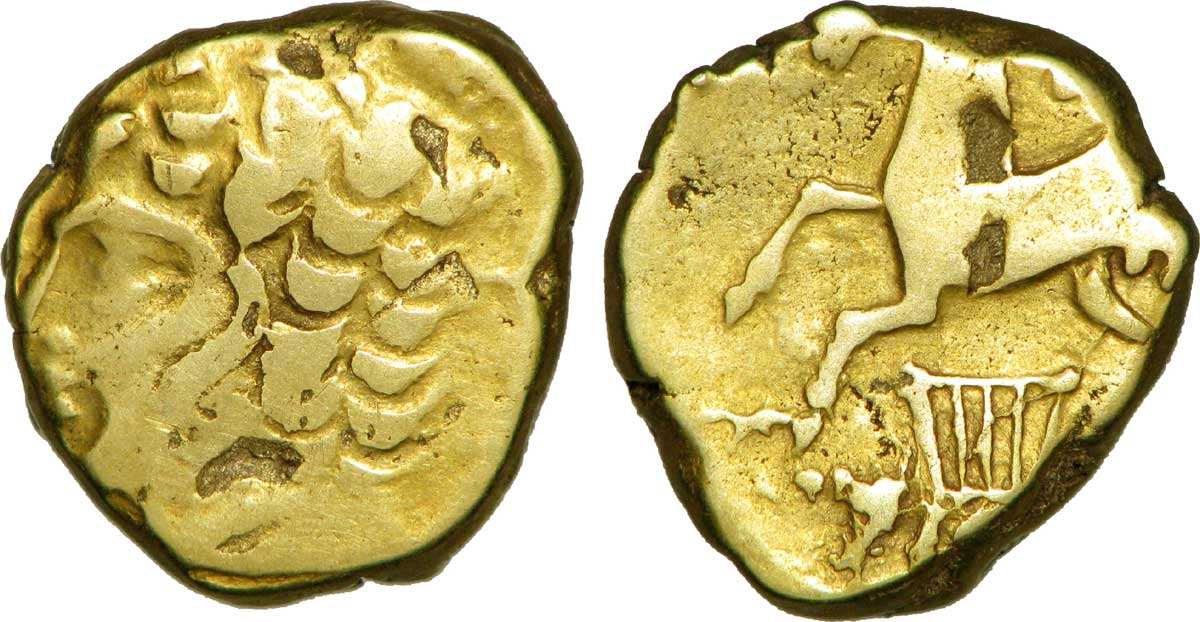 Statère d’or pâle à la lyre et à l’étendard frappé par les Arvernes Date : c. 120-60 AC. Description revers : Cheval bondissant à gauche ; une lyre à trois cordes entre les jambes et une croisette bouletée incluse dans un quadrilatère au-dessus du cheval .